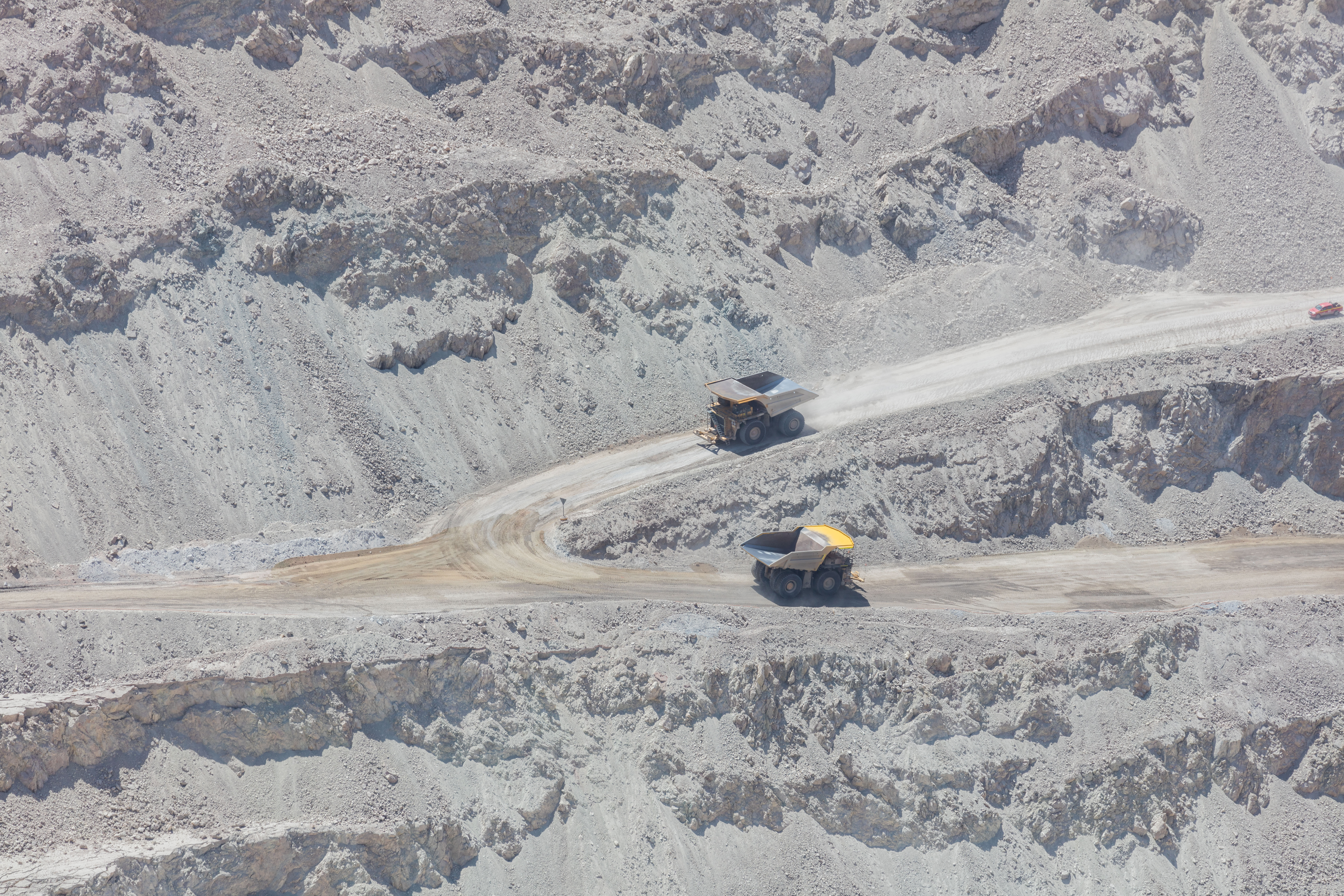 Komatsu haul trucks, Chuquicamata Mine, Calama, Chile